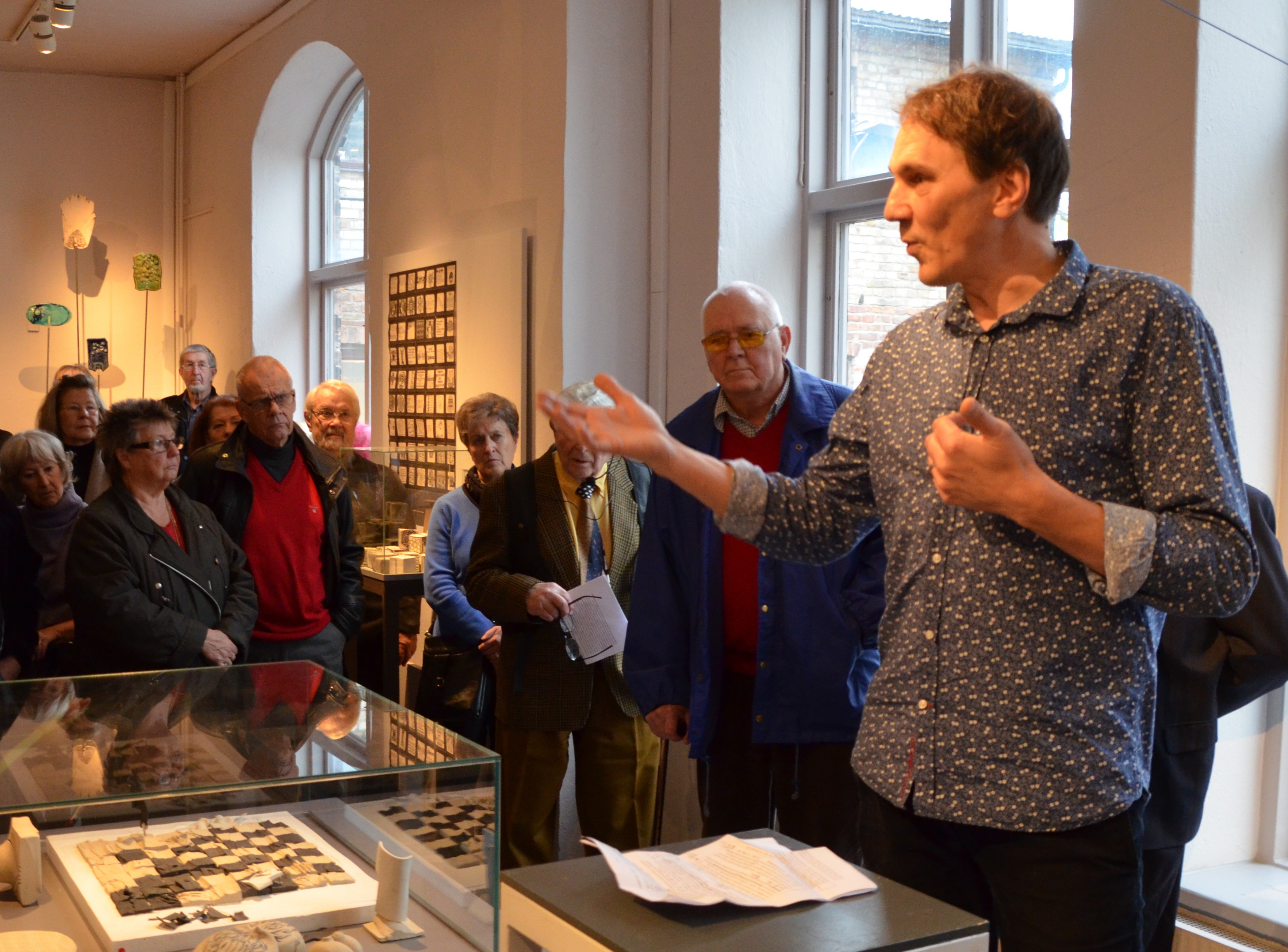 Petter Eklund, Swedish journalist